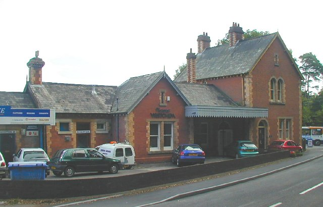 Station House, Sidmouth, Devon, United Kingdom. The railway line was closed in 1968, but this is still clearly a railway building. Round the back there is still some platform and canopy, in use by a builders' merchant.